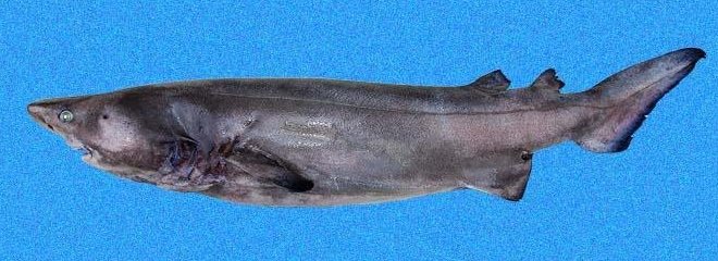 Echinorhinus cookei